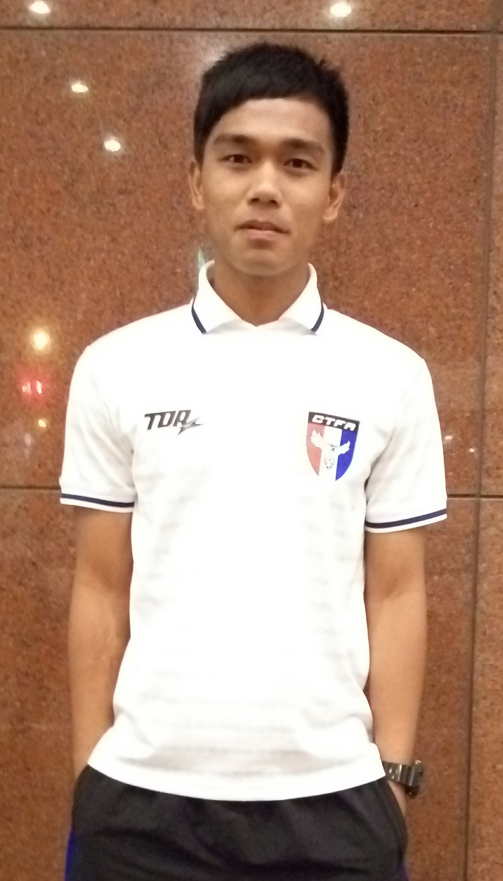 Taiwan Football Player Tseng Chih-Wei